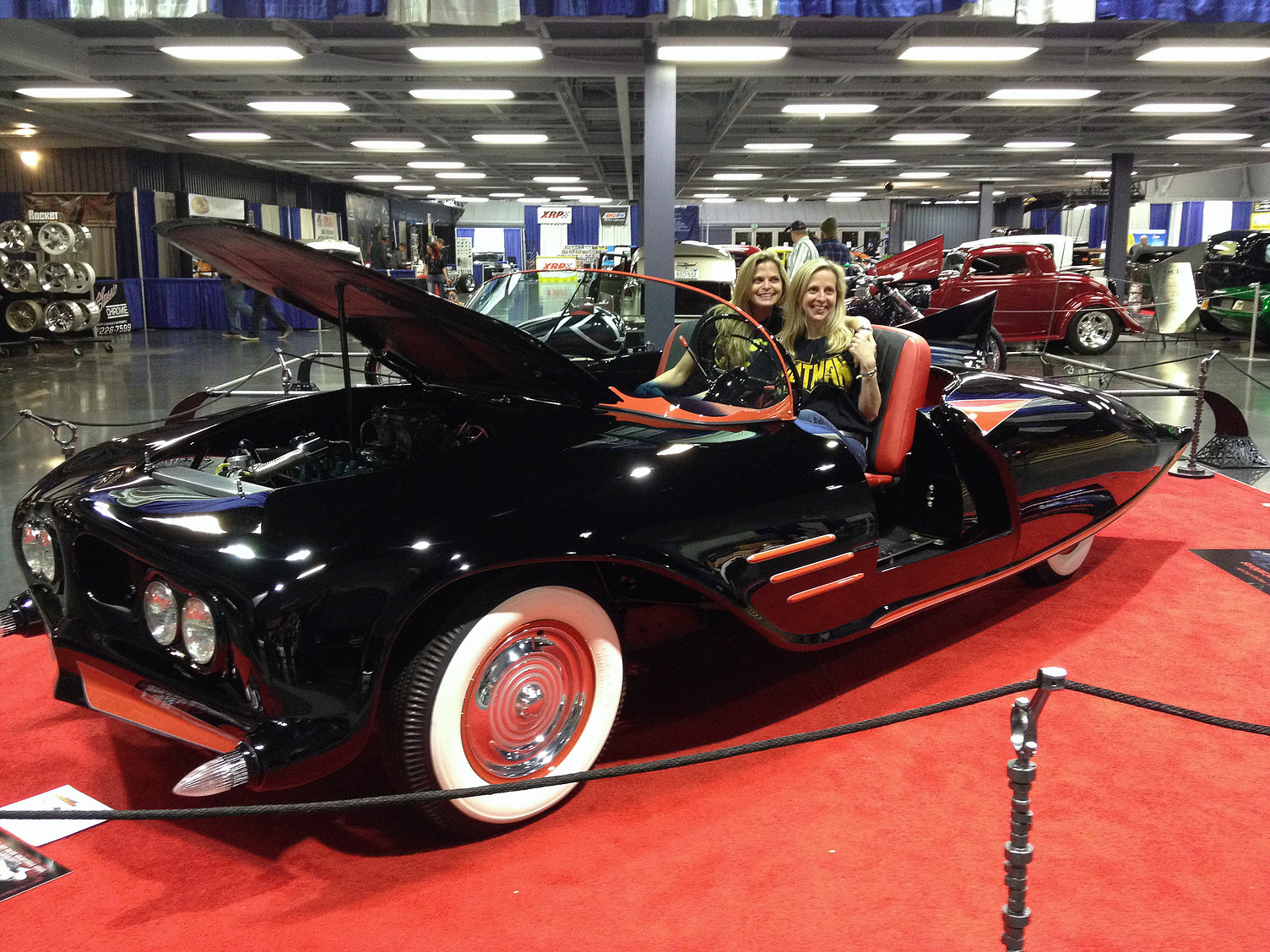 1963 Batmobile February 15 2014 Exhibited at Sacramento Autorama shortly after Batmobile was restored with original builders daughters Darlene and Karen Robinson in Batmobile.